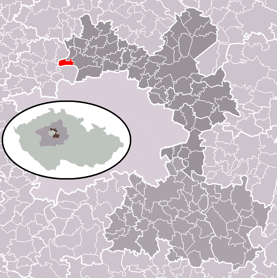 Location of Husinec municipality within Prague-East District and administrative area of Brandýs nad Labem-Stará Boleslav as a Municipality with Extended Competence.